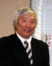 Yūichirō Miura, Principal of Clark Memorial International High School, received the Letter of Appointment as the Goodwill Ambassador for Health of the Ministry of Health, Labour and Welfare from Yōichi Masuzoe, Minister of Health, Labour and Welfare, at the Central Government Building No.5 in Chiyoda Ward, Tōkyō Metropolis on November, 2007.